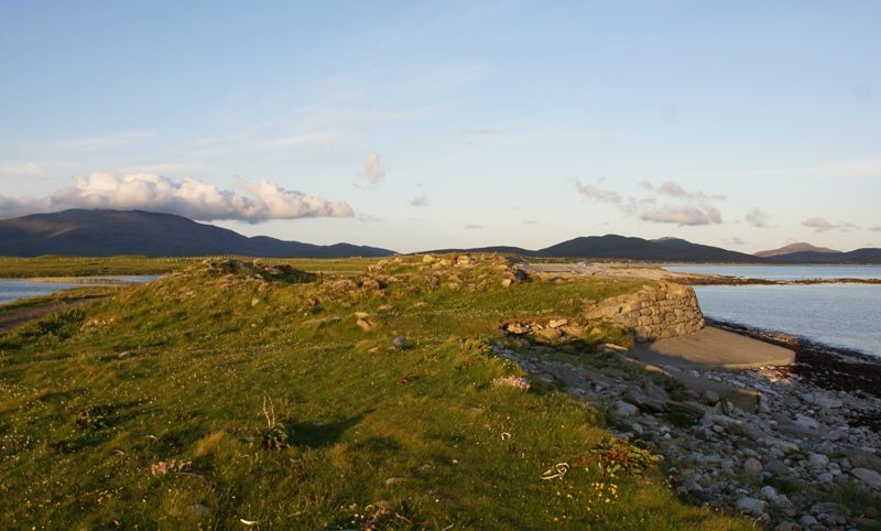 Dun Vulan, South Uist, Outer Hebrides, Scotland - from the west